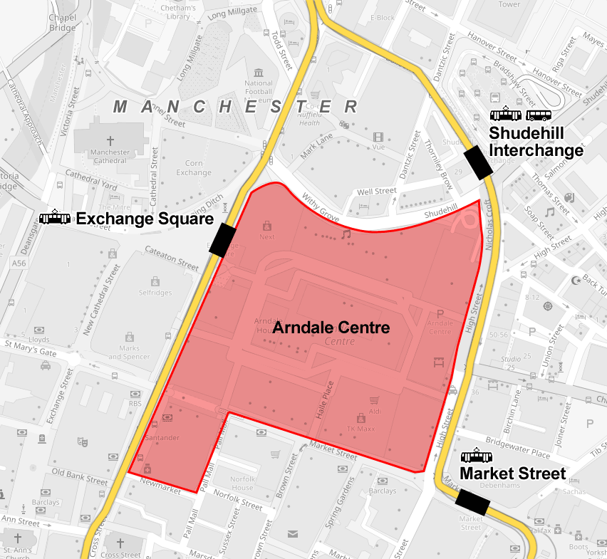 Tram stops serving the Arndale Centre in Manchester, UK This map may be incomplete, and may contain errors. Don't rely solely on it for navigation.